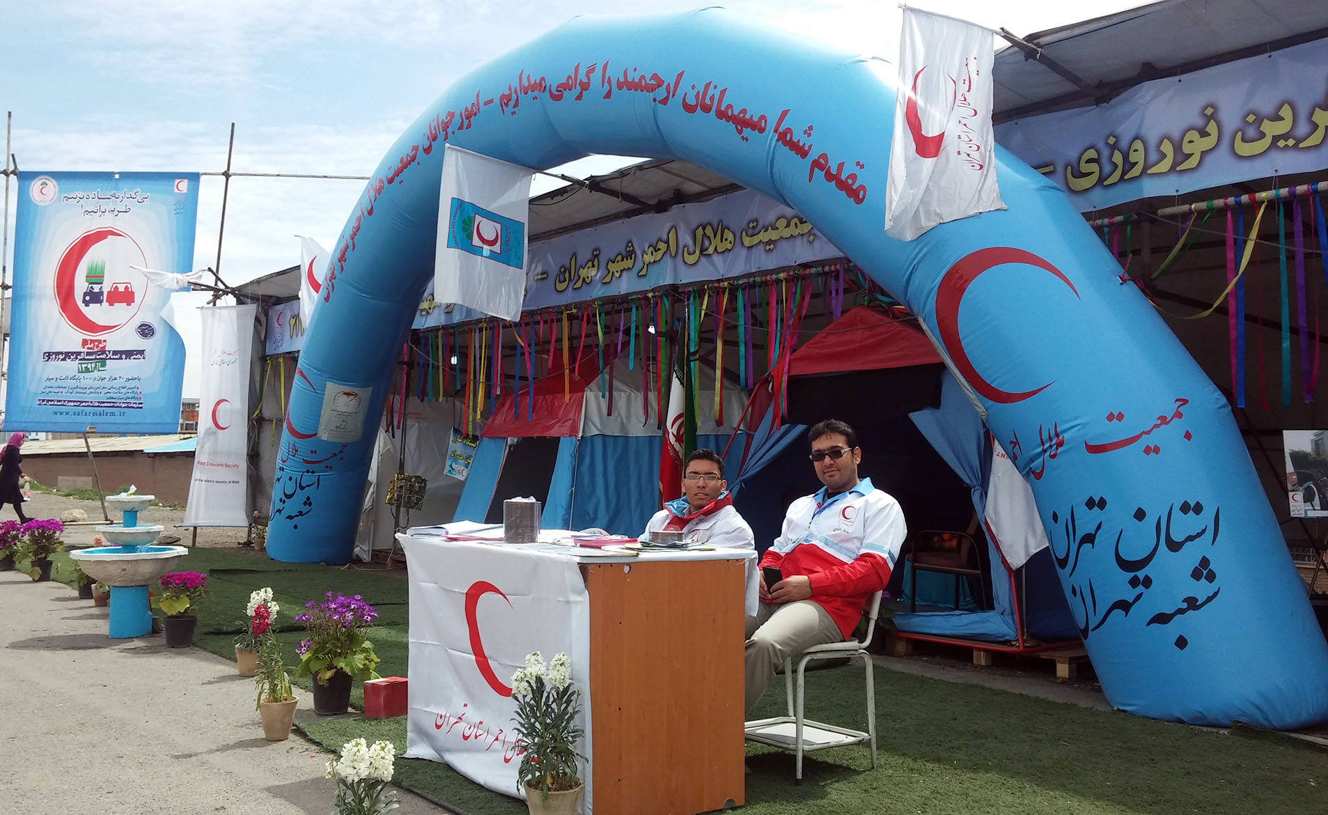 Youth members of an IRCS Nowruz post during Red Crescent national relief and rescue campaign in Nowrouz holidays. The Nowrouz posts of Red Crescent Youth Organisation, were in the entrance and exit points of cities of Iran.